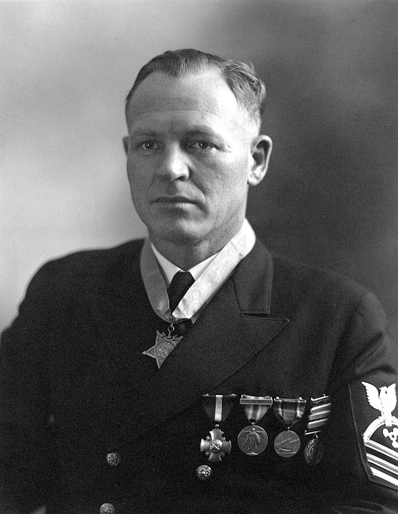 Chief Machinist's Mate William Badders of the U.S. Navy, just after being presented with the Medal of Honor for heroism during rescue and salvage operations on USS Squalus (SS-192). Among his other medals are (from left): the Navy Cross; the World War I Victory Medal; and a Yangtse River Patrol Service Medal.